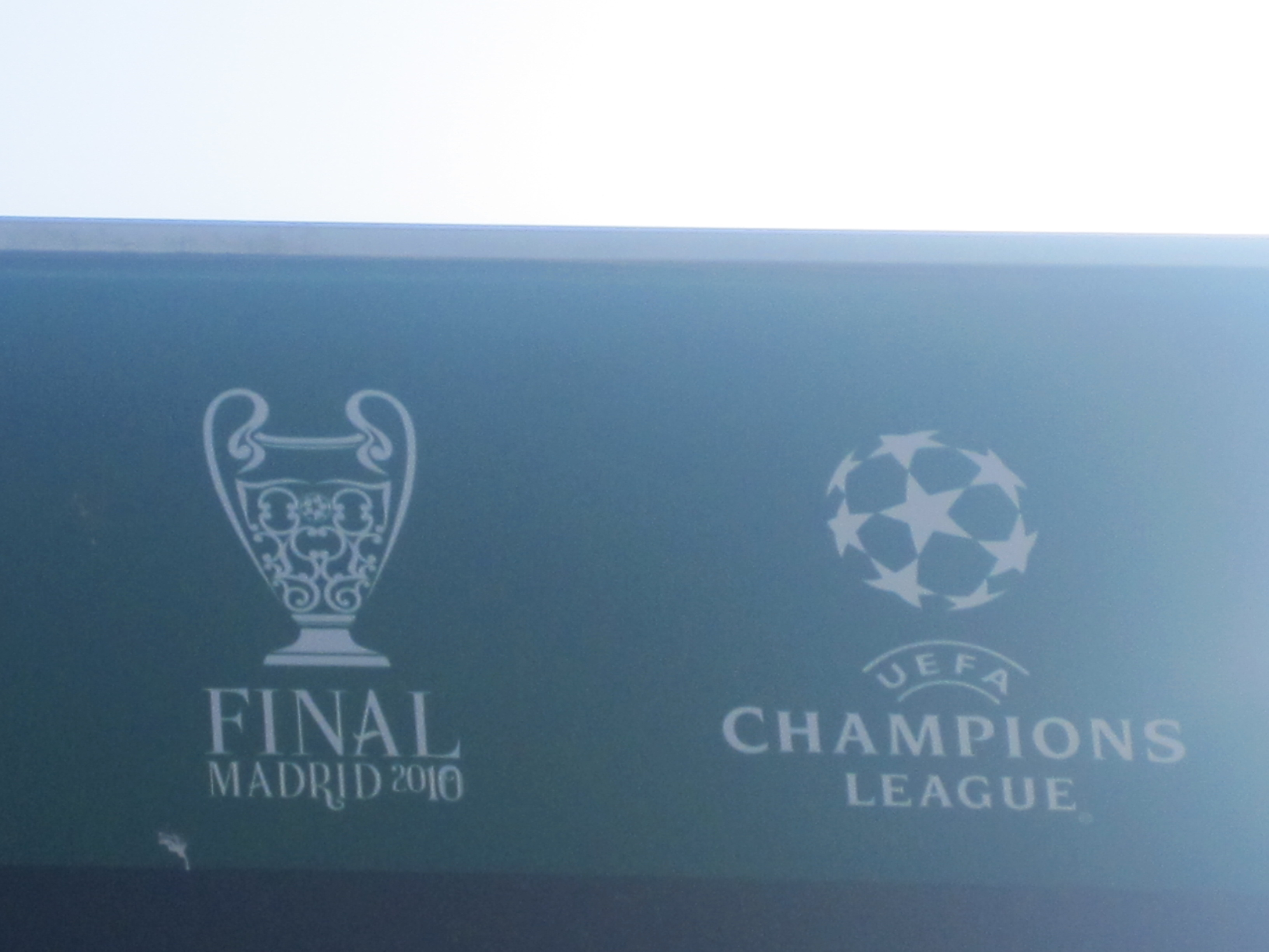 UEFA Champions League Final 2010.